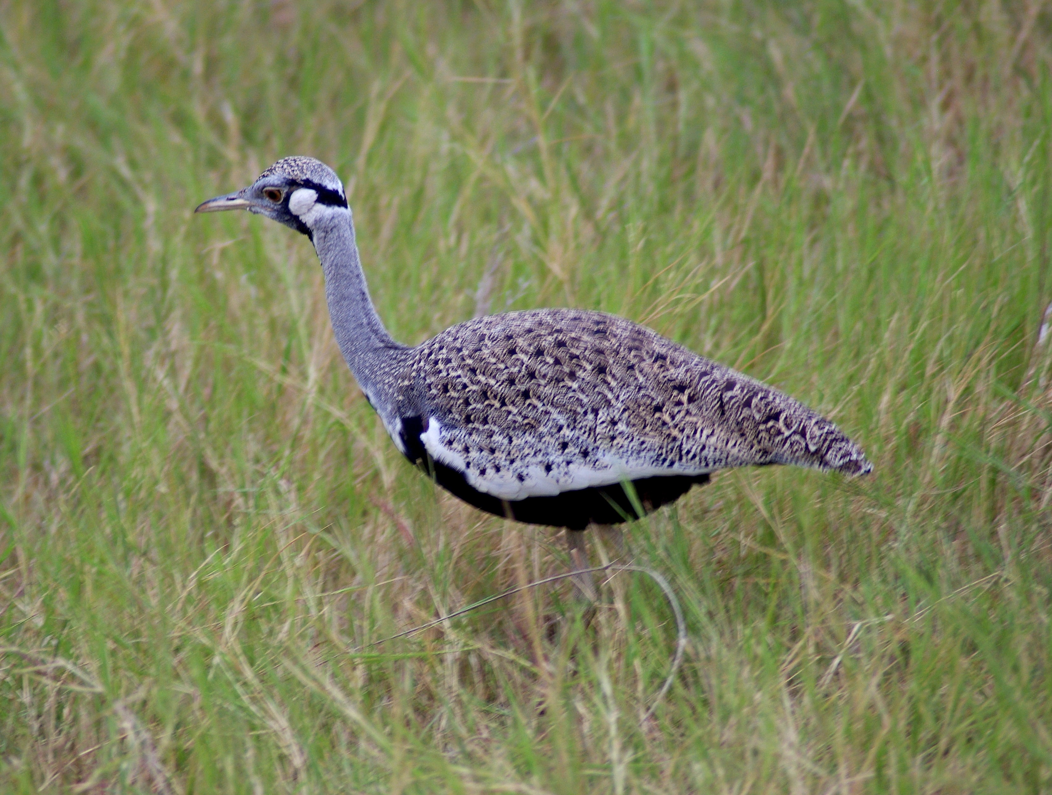 Male Hartlaub's Bustard in Kenya. Sharpened a little. Time stamp is 10 hours too early. Thanks to JMK for correct identification and for improving the picture (rights released via e-mail).